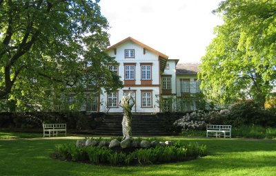 Ringve Mansion